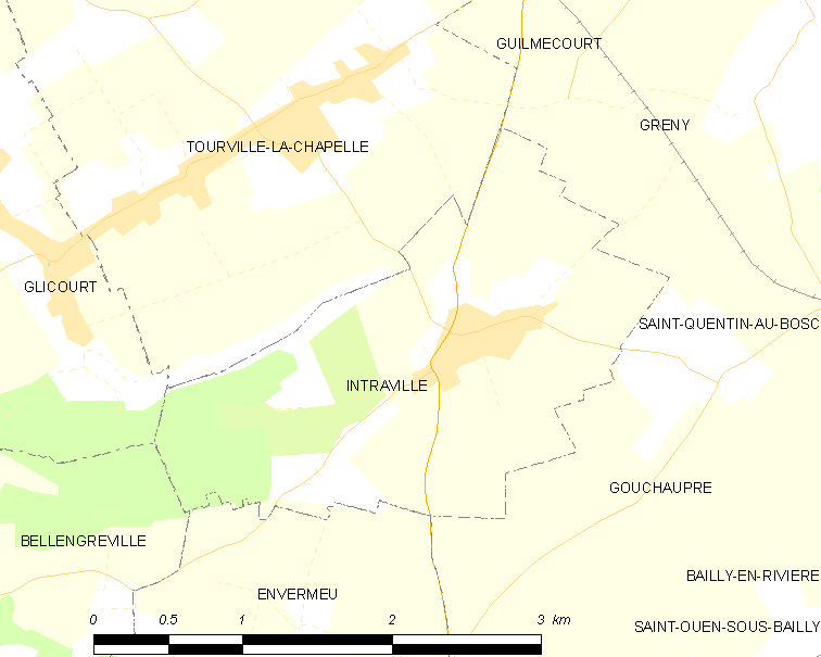 Map of French municipality Intraville